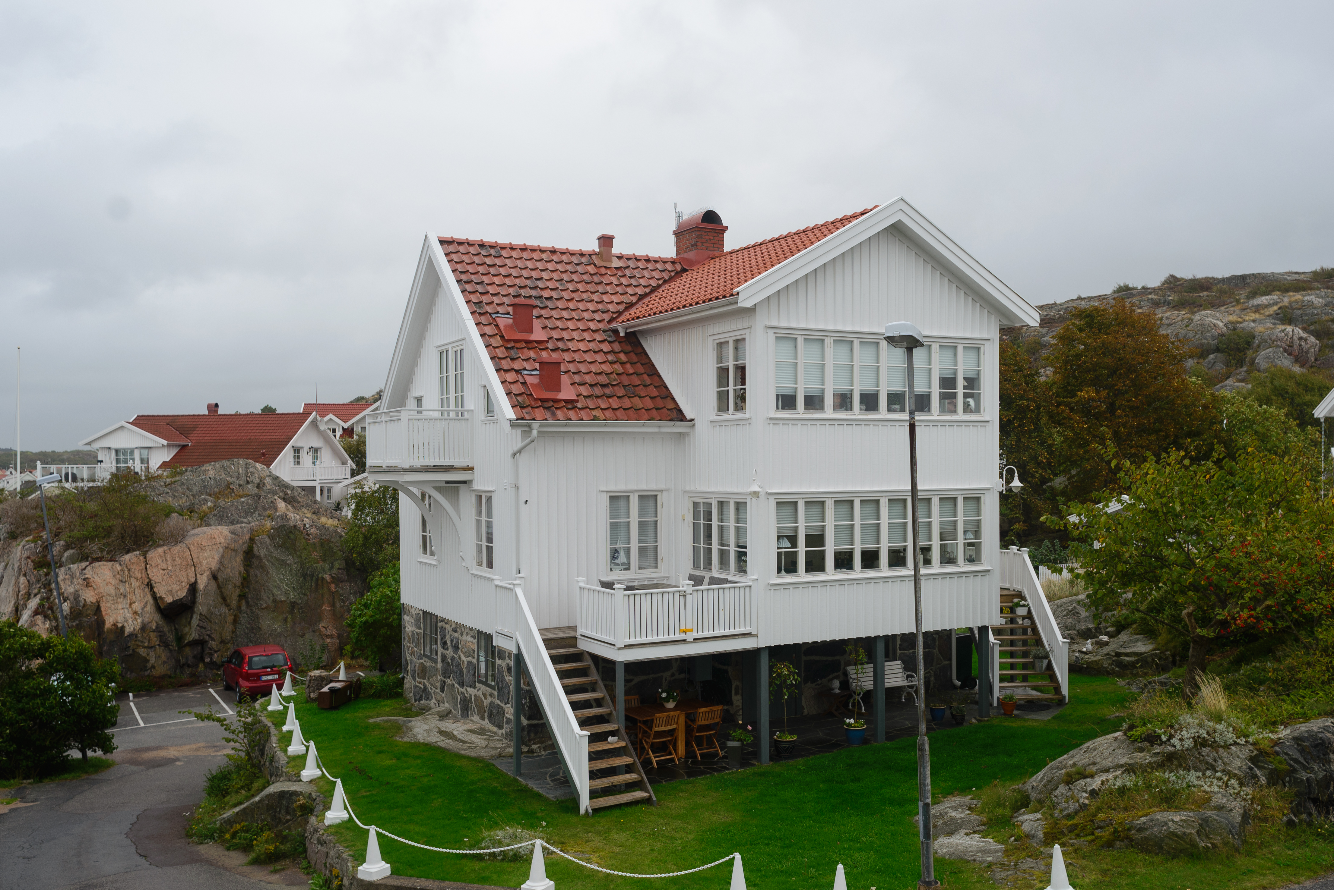 Building in the villages Skärhamn in Tjörn Municipality, Västra Götaland county.